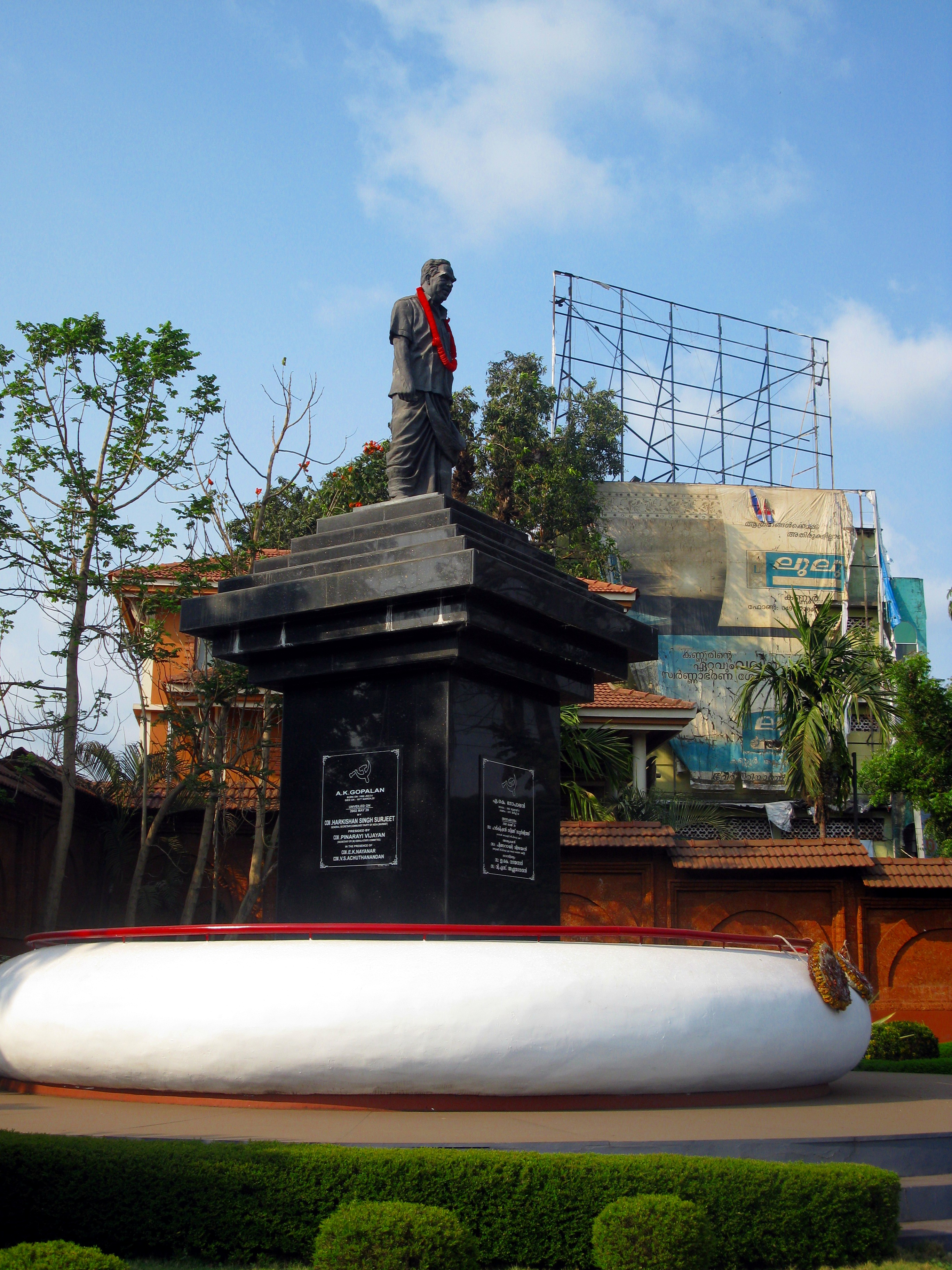 This media file is uploaded with Malayalam loves Wikimedia event. AKG Statue, Kannur